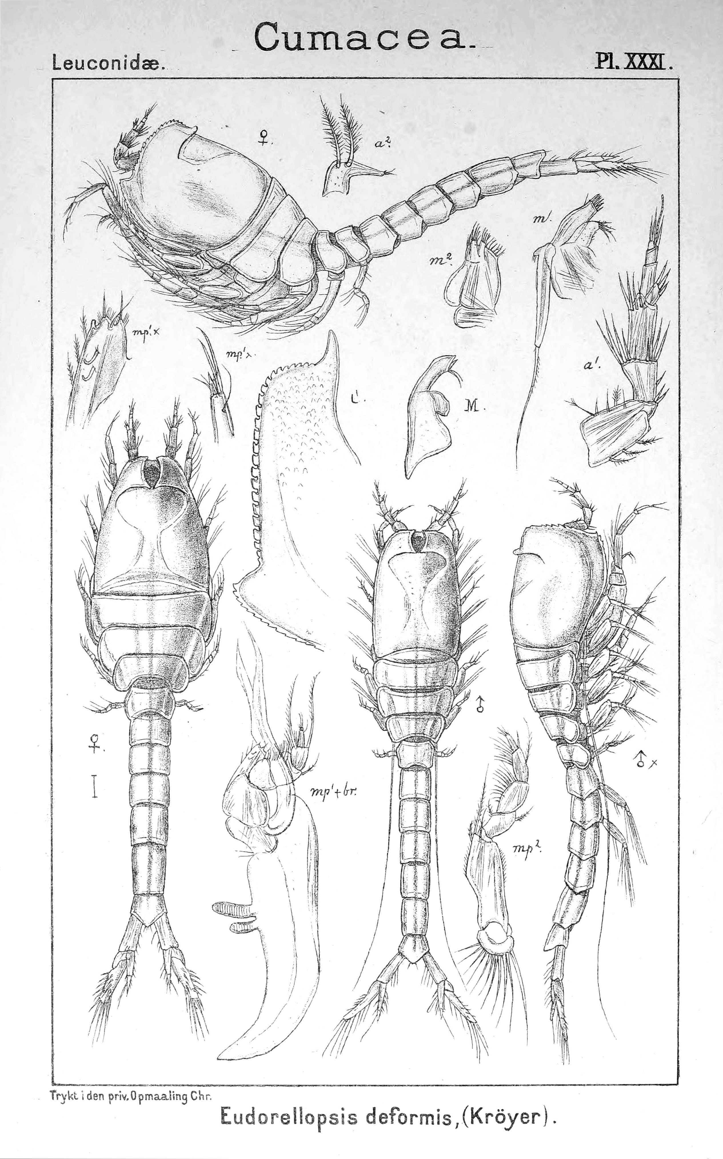 Plate XXXII from Sars, G. O., (1900). An account of the Crustacea of Norway: Cumacea, Bergen Museum.